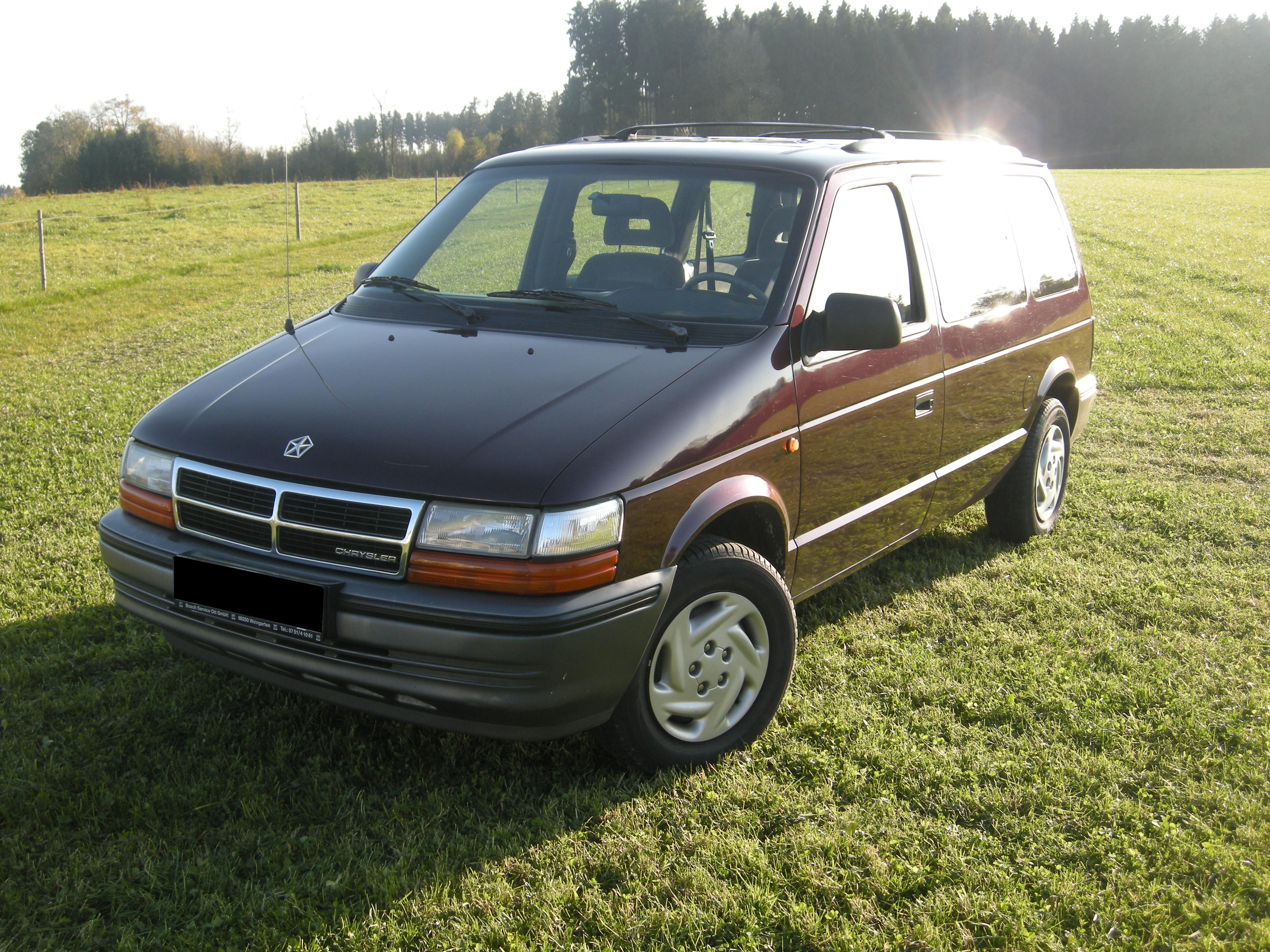 Chrysler Voyager SE